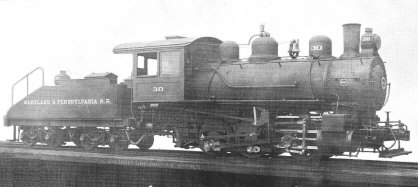 The Maryland and Pennsylvania Railroad's 0-6-0 steam locomotive #30, built in 1913 by the Baldwin Locomotive Works.